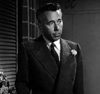 Canadian actor Alexander Knox (1907-1995) in Paula (1952) (directed by Rudolph Maté) - trailer (cropped screenshot).